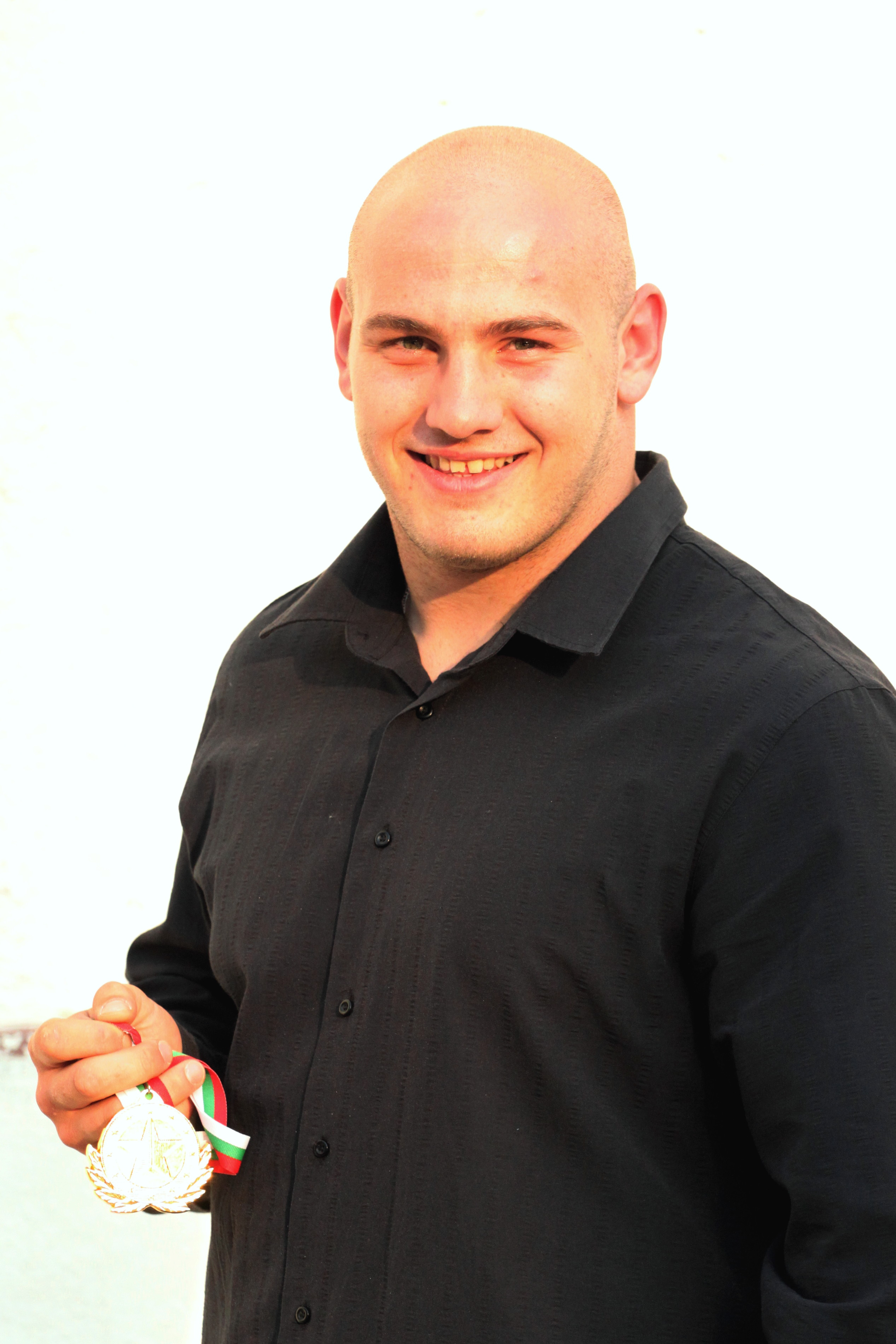 Martin Marinkov - bulgarian sambo wrestler, European champion category over 100 kg